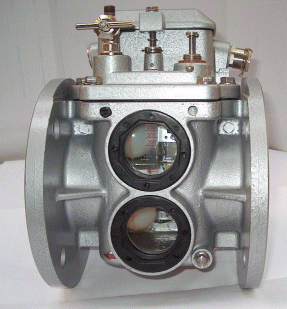 Buchholz relay